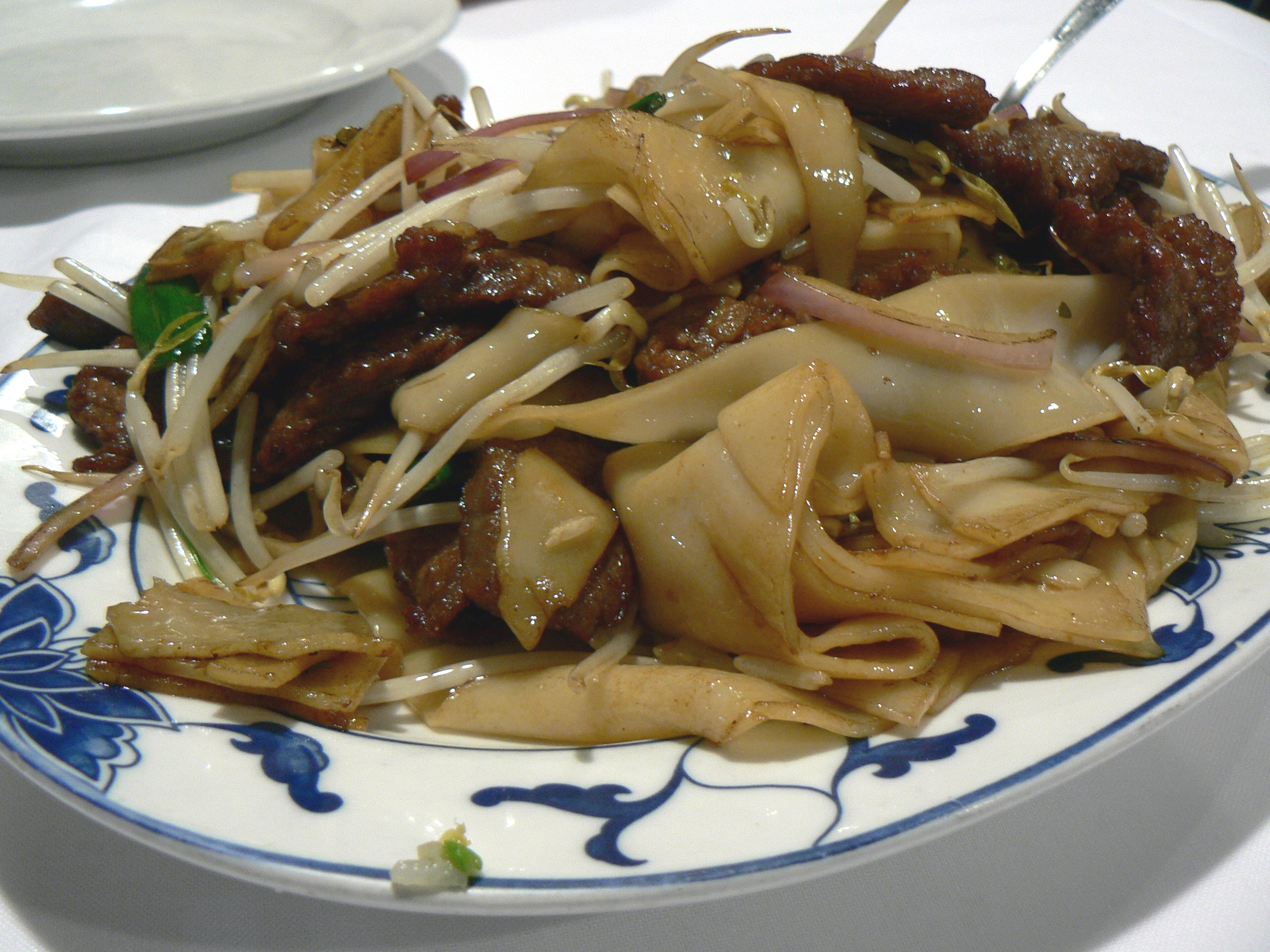 Beef chow foon - beef chow fun - beef chow phoon (Dry Fried Version)